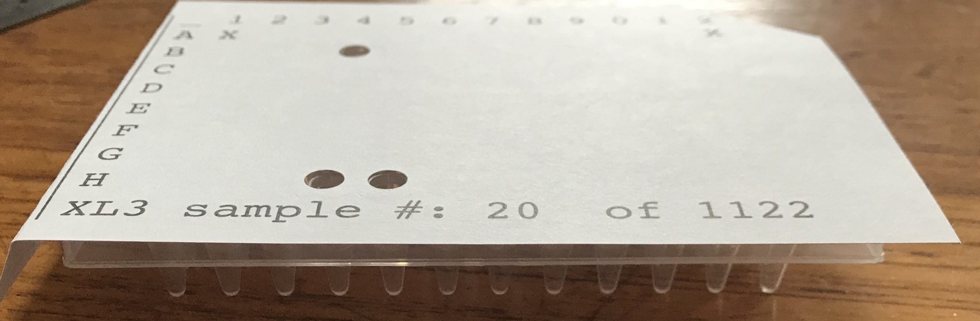 Origami Assays paper template used for nonadaptive group testing of COVID19 assays. The template simplifies the manual process for assay construction to reduce human error.